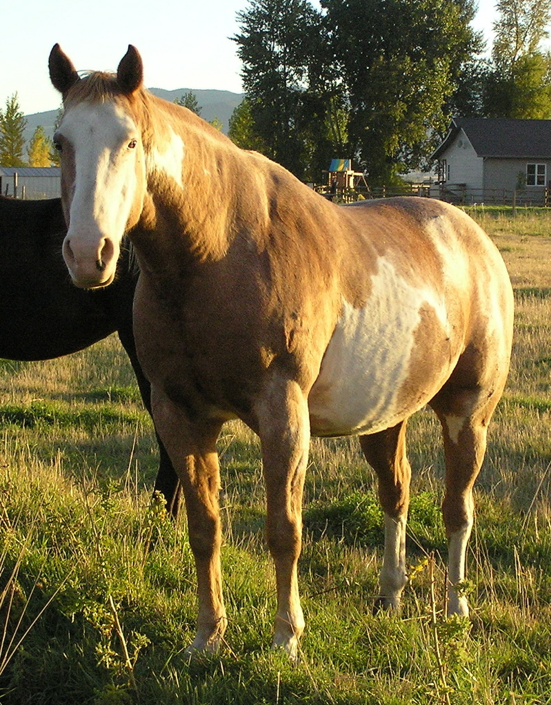 Paint horse that seems to have both frame overo and sabino patterns